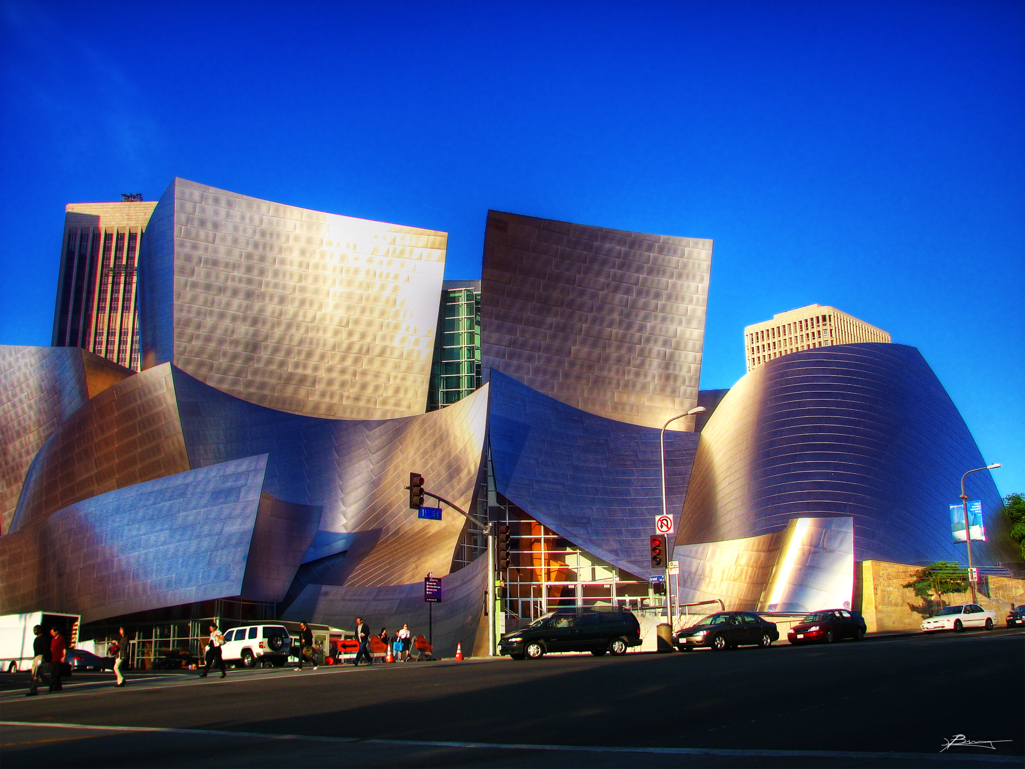 Walt Disney Concert Hall, Los Angeles.